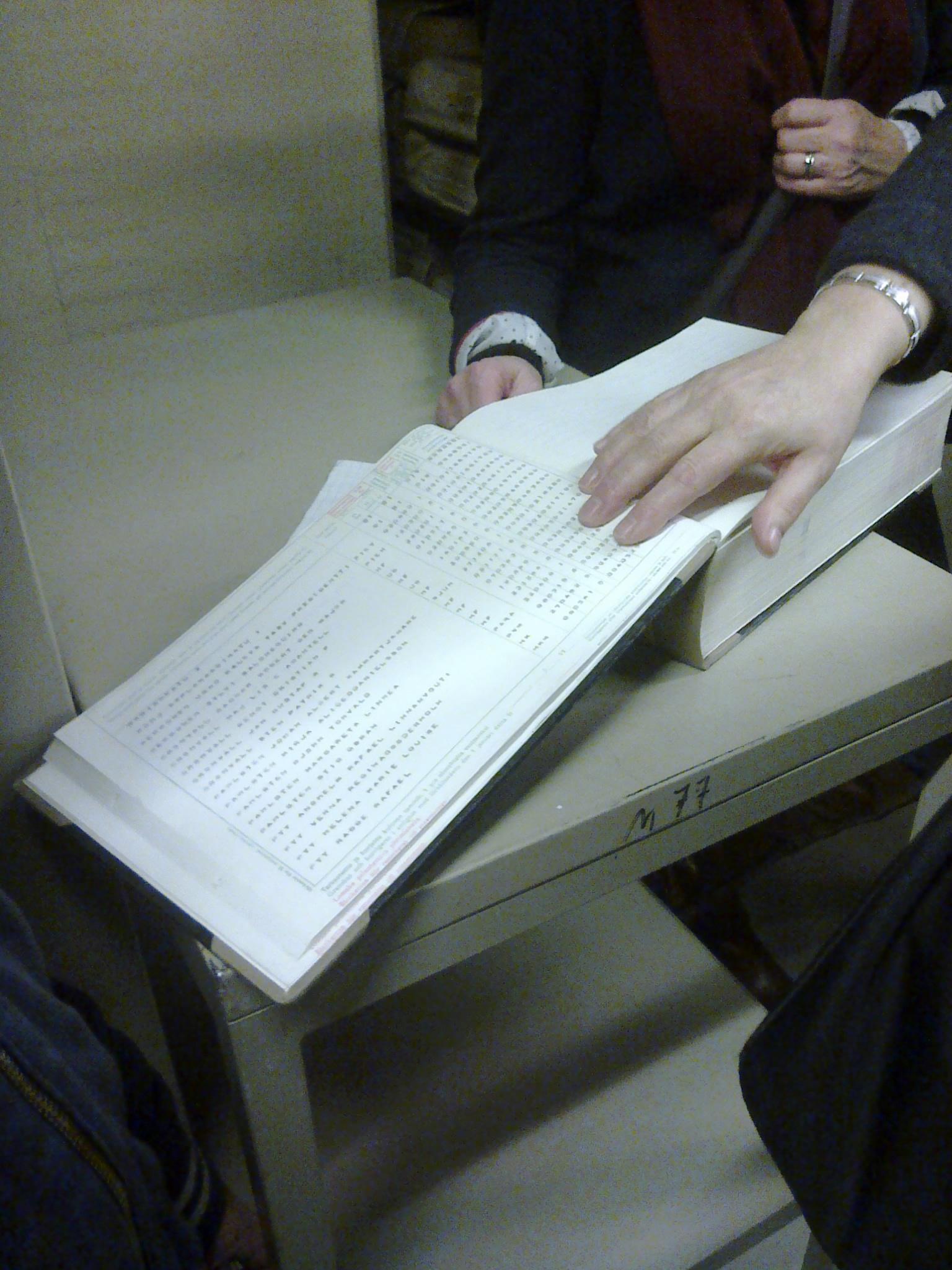 Poll tax register (henkikirja) from Finland in the 1960s(?), containing an entry for the President of the Republic Urho Kalevi Kekkonen. Seen at the National Archive.